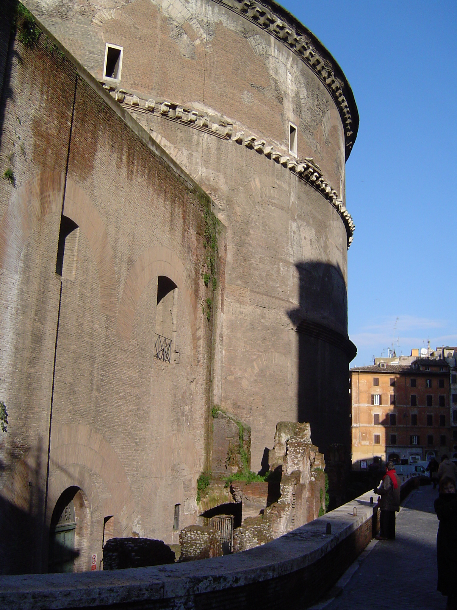 Eastern wall of the rotunda of the Pantheon, with the remains of te western wall (Porticus Argonautarum) of the Saepta Julia in front.